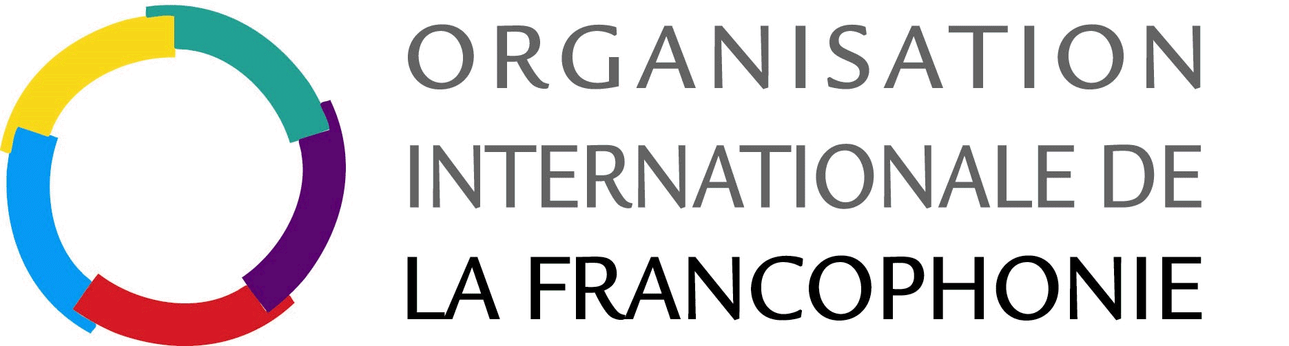 organisation internationale de la francophonie